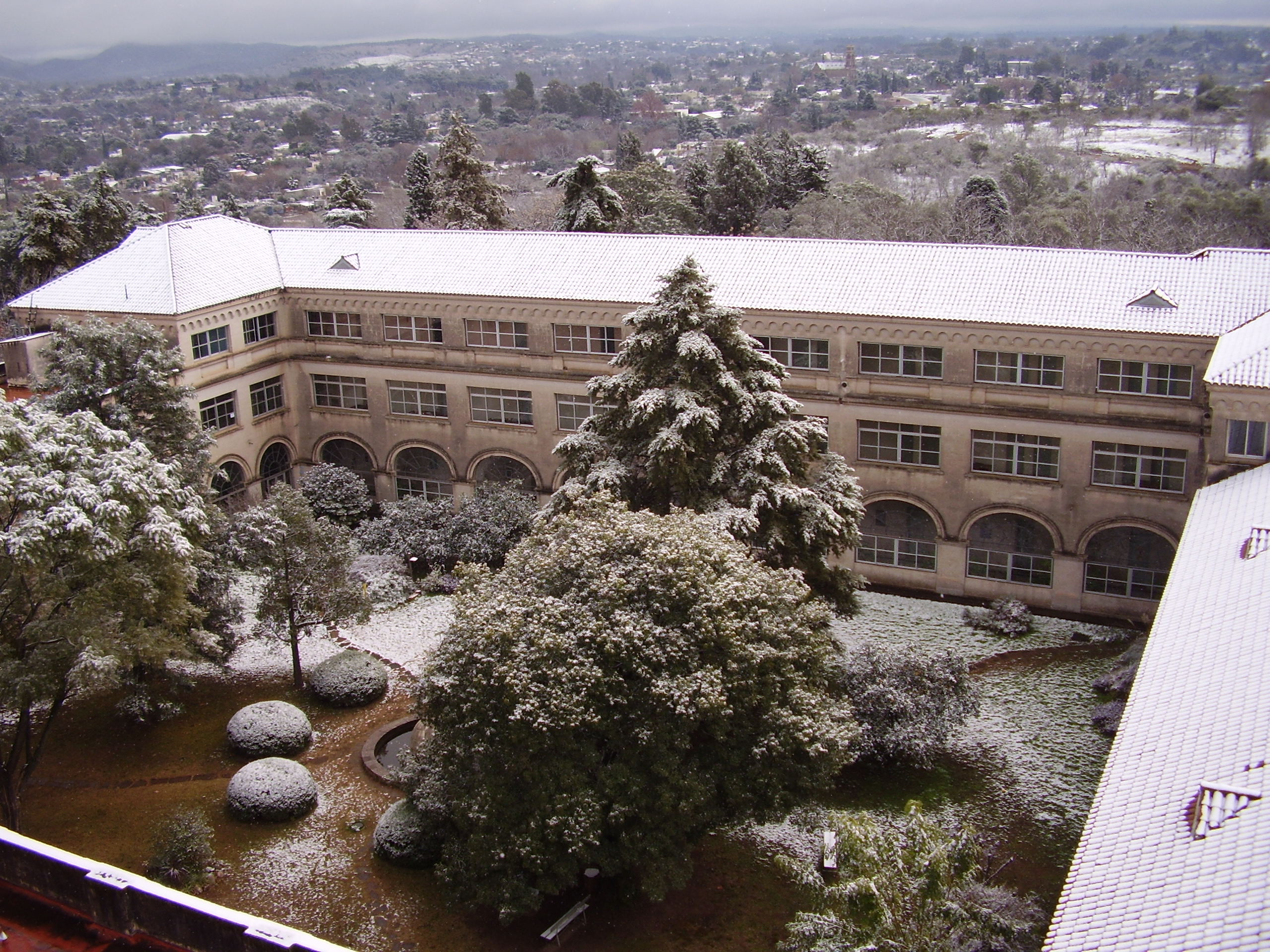 San Alfonso Convent with snow 1. Villa Allende, Córdoba